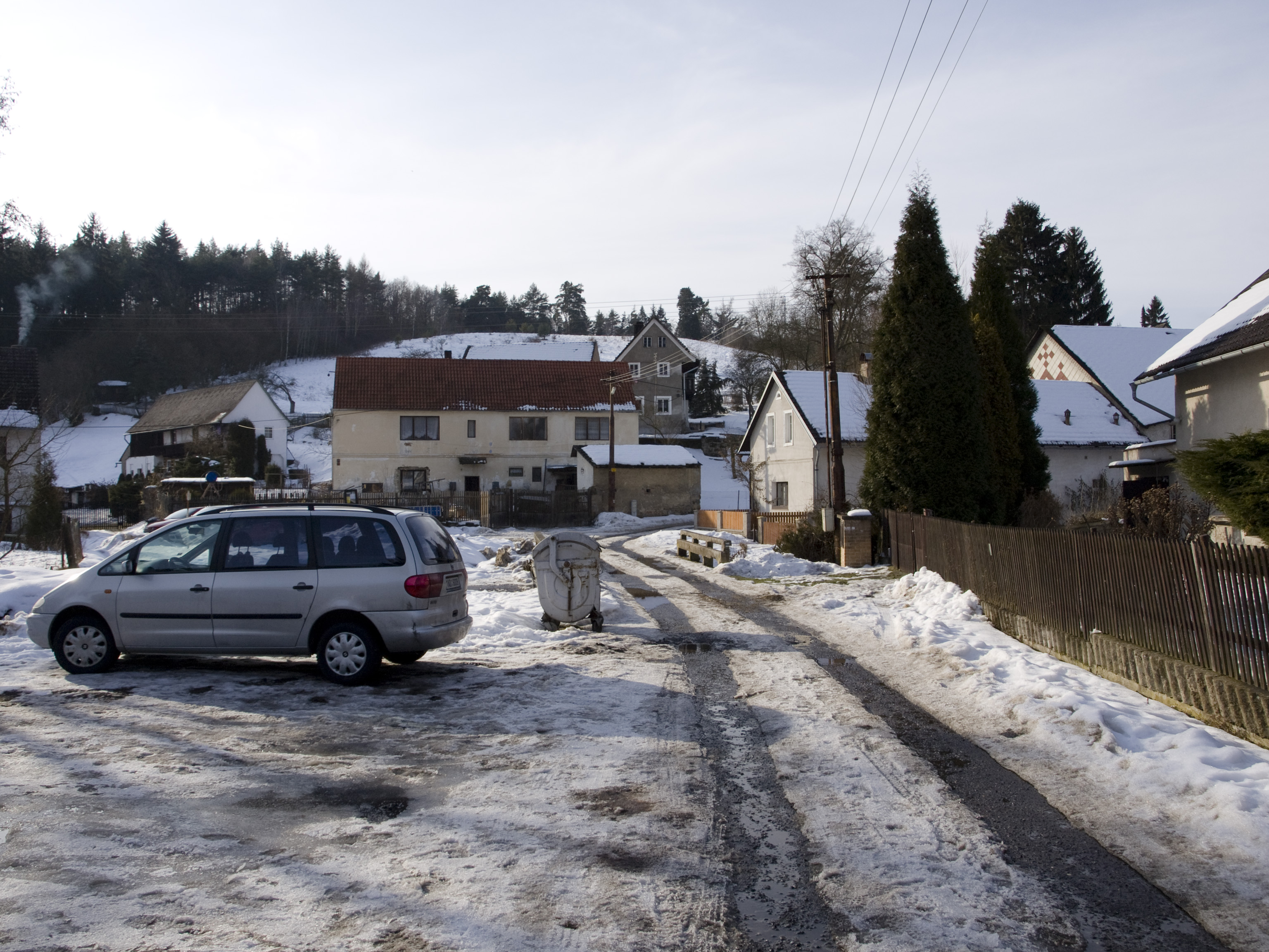 Village square, Tupadly, Central Bohemian Region Region